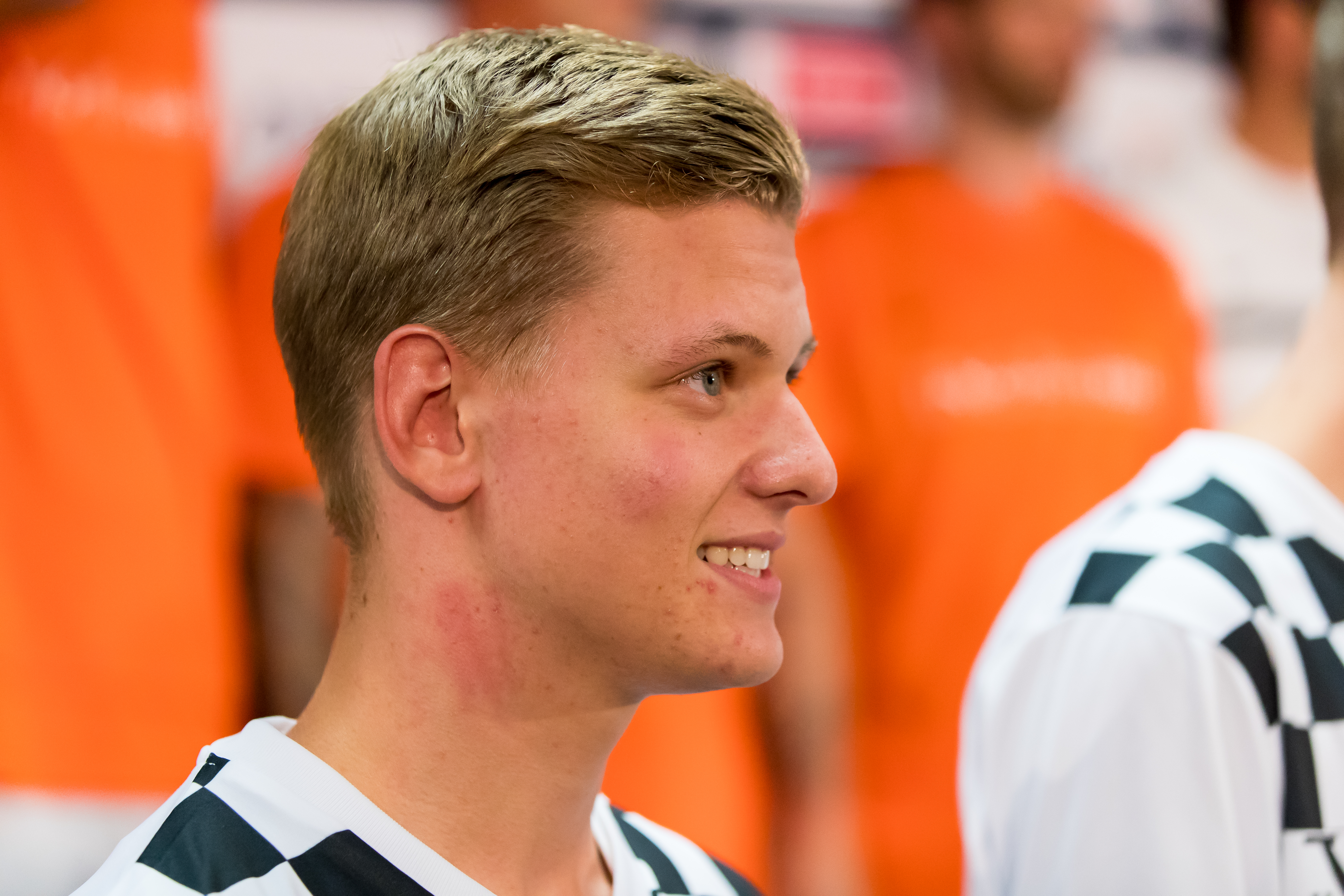 Mick Schumacher during a football match between Nowitzki All Stars and Nazionale Piloti in honor of Michael Schumacher at Opel Arena, Mainz, Rheinland Pfalz, Germany on 2016-07-27, Photo: Sven Mandel